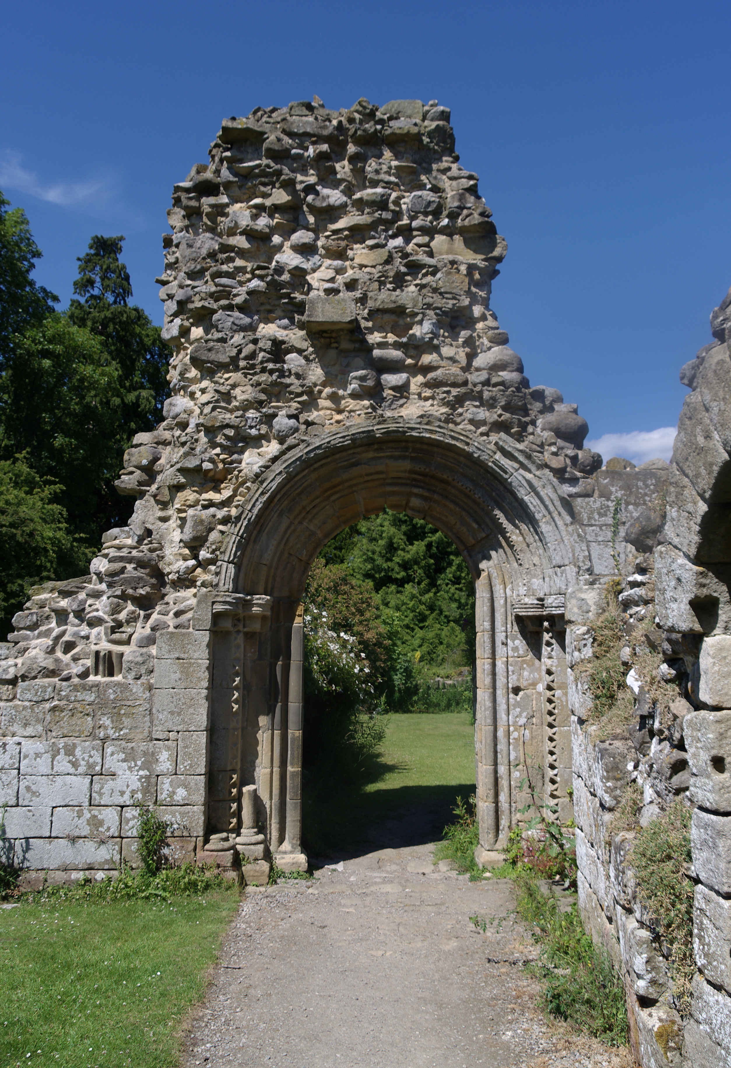 Jervaulx Abbey.